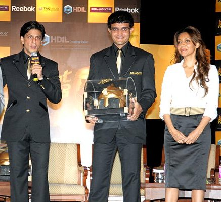 Sourav Ganguly with Shahrukh Khan and his wife Gauri Khan during the unveiling of the mascot for Indian Knight riders